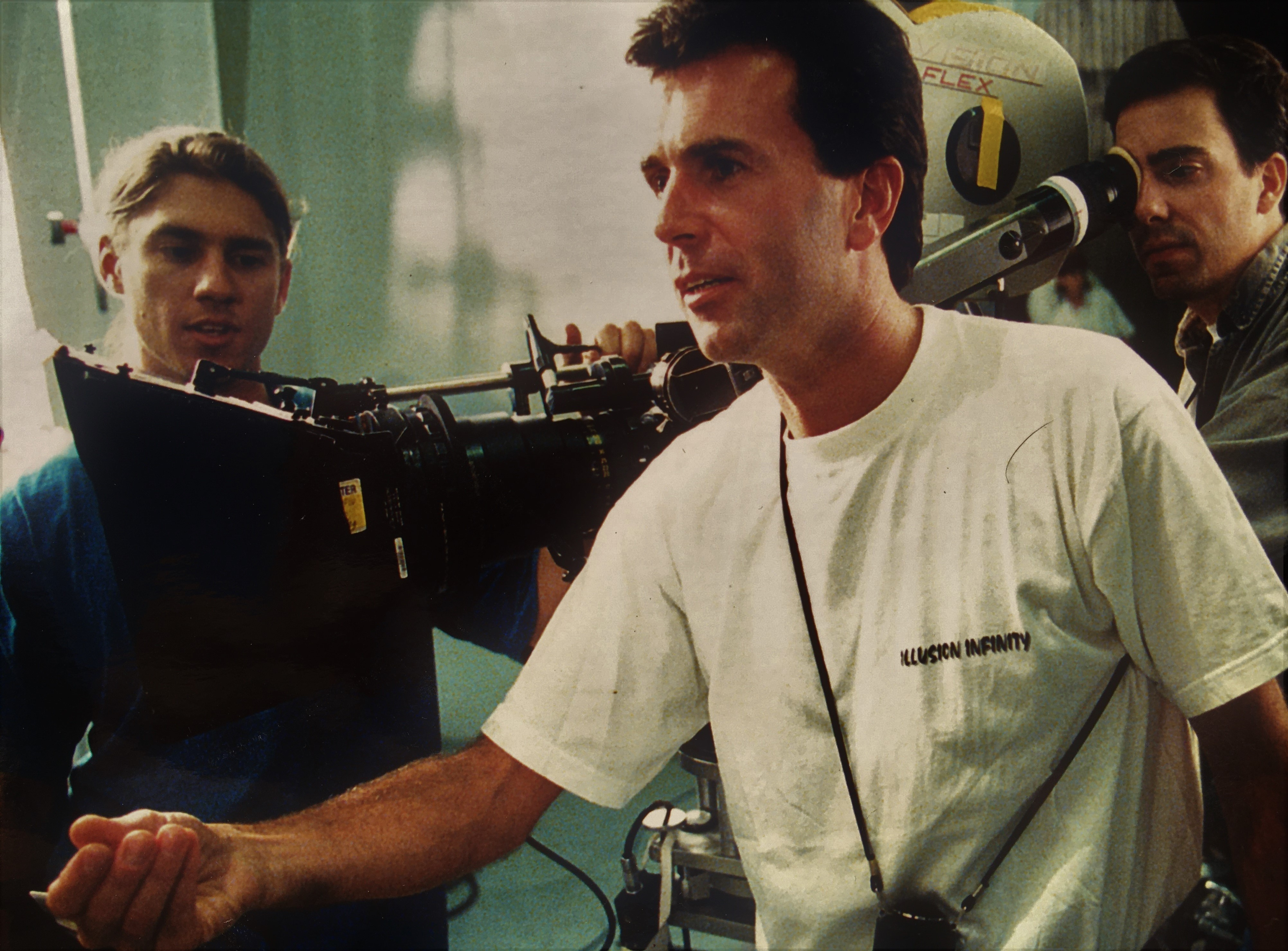 Roger Steinmann directs Illusion Infinity, on studio-location in Hollywood/California, by Jim Beaver, on-set photographer Illusion Infinity